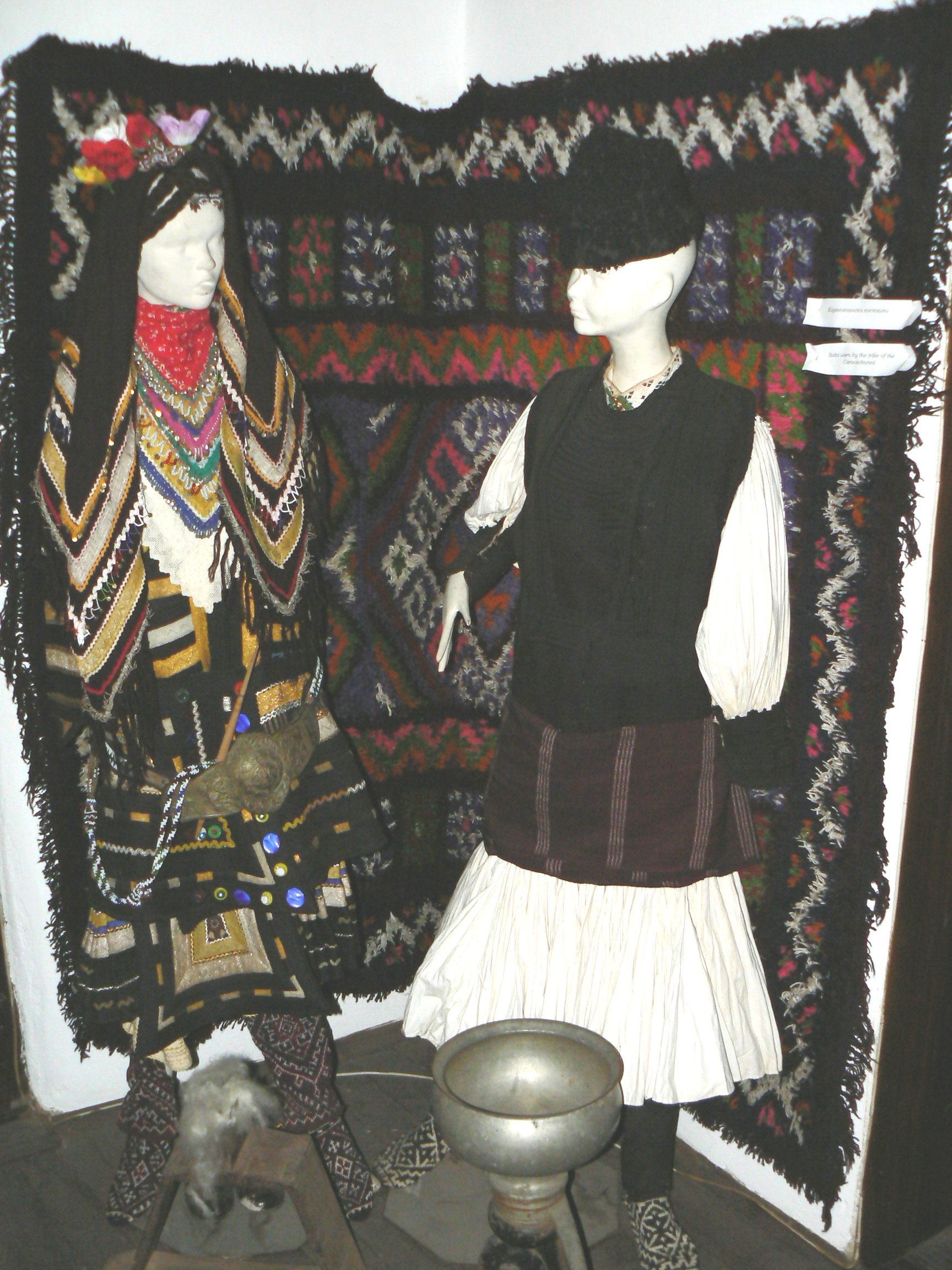 Female and male folk costumes of sarakatsani from the region of Berkovitsa. Exhibited in the Ethnographic museum of Berkovitsa, Bulgaria